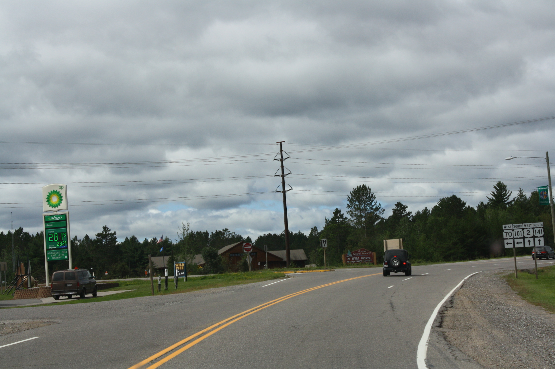 The north terminus of Wisconsin Highway 70 and eastern terminus of Wisconsin Highway 101 at U.S. Route 2 / U.S. Route 141 in Florence (community), Wisconsin.